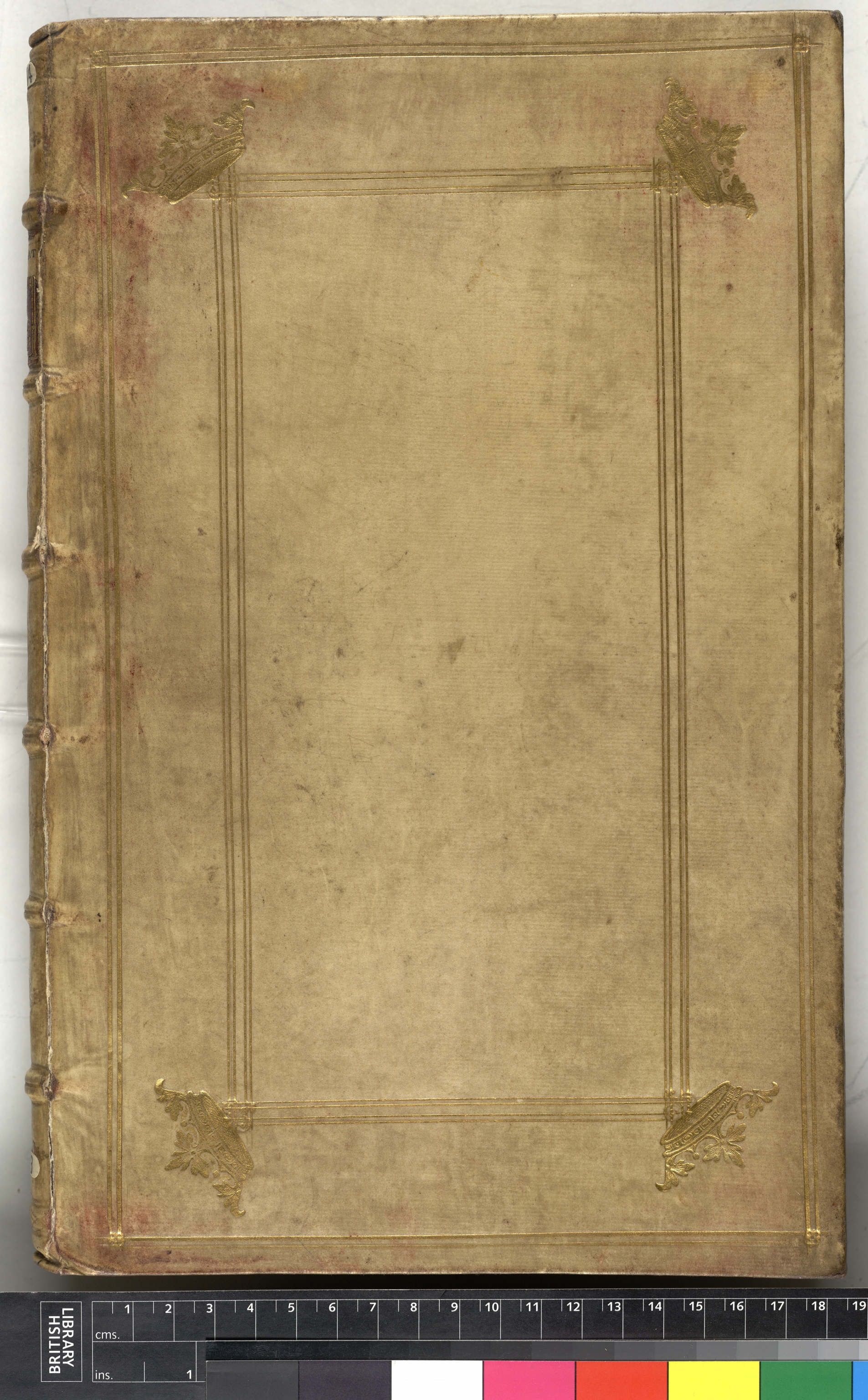 Style: Panel design; Caption: Upper cover; Colour: White / cream; Edge: Unspecified